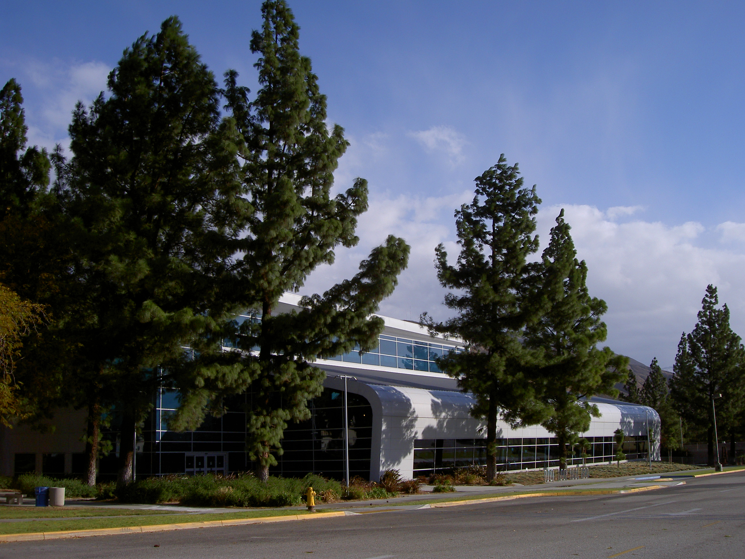 CSUSB